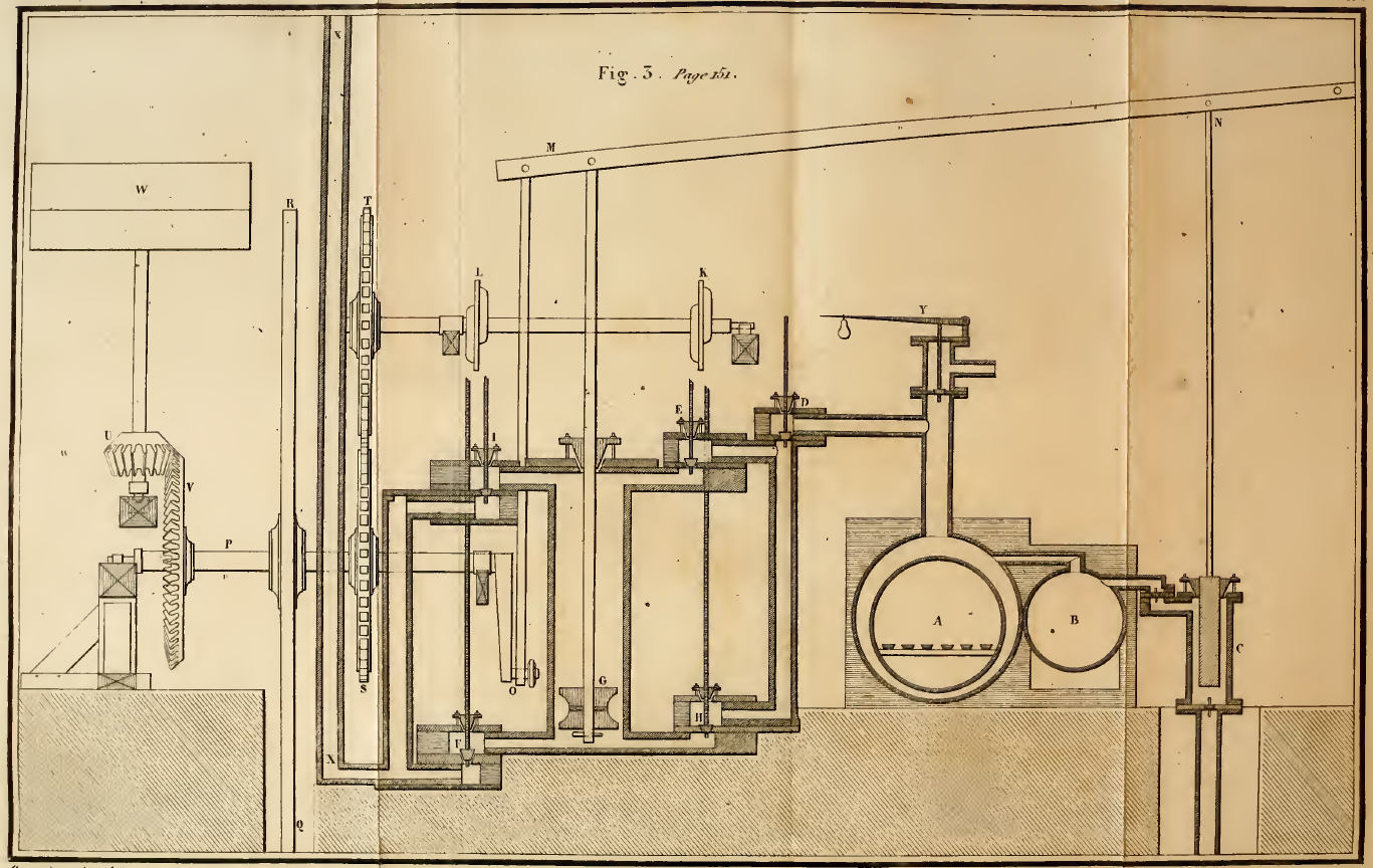 An Evan's plan for a high-pressure steam engine that first appeared in the Abortion of the Young Steam Engineer's Guide, 1805